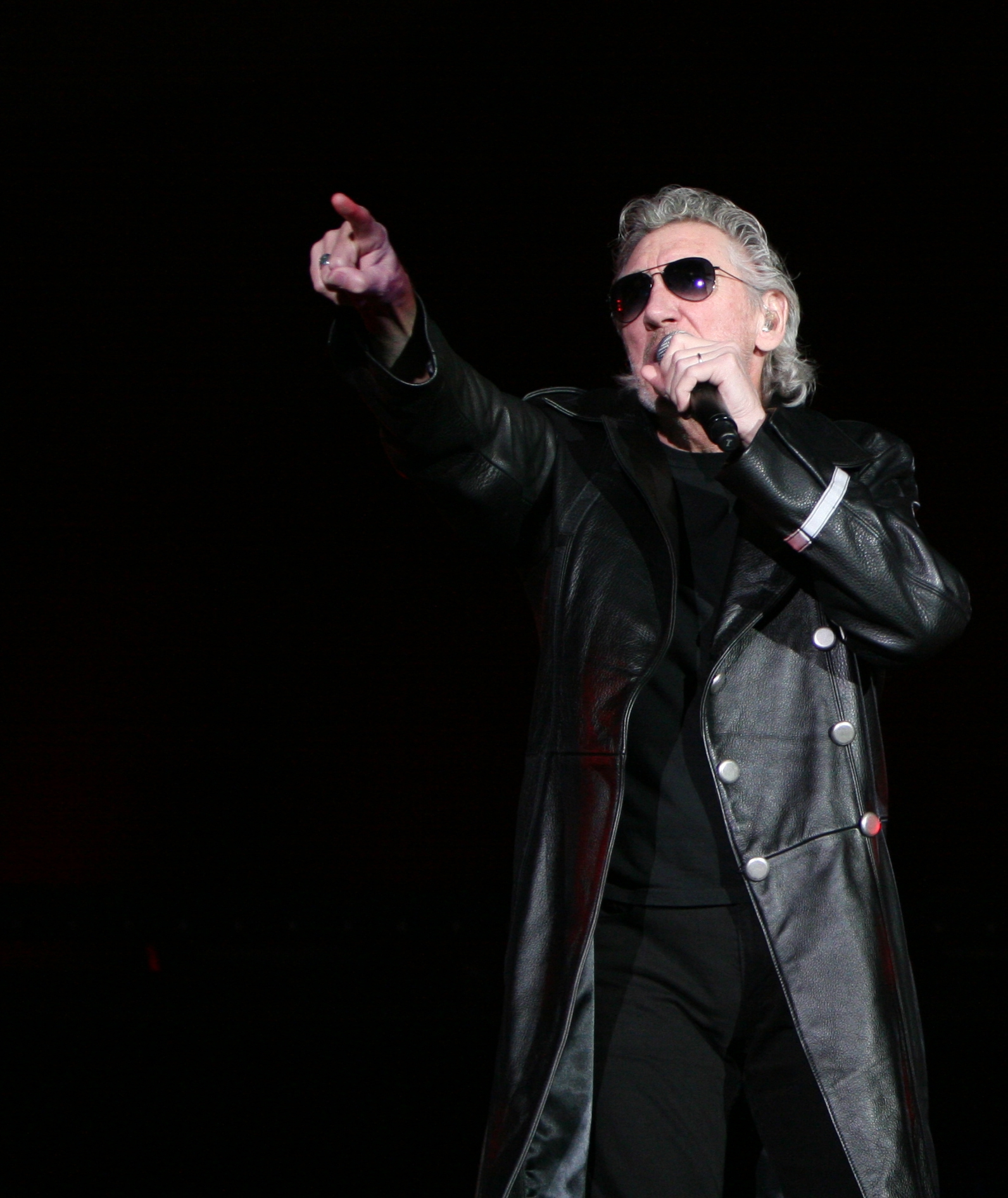 Roger Waters in Barcelona (Spain) during The Wall Live.